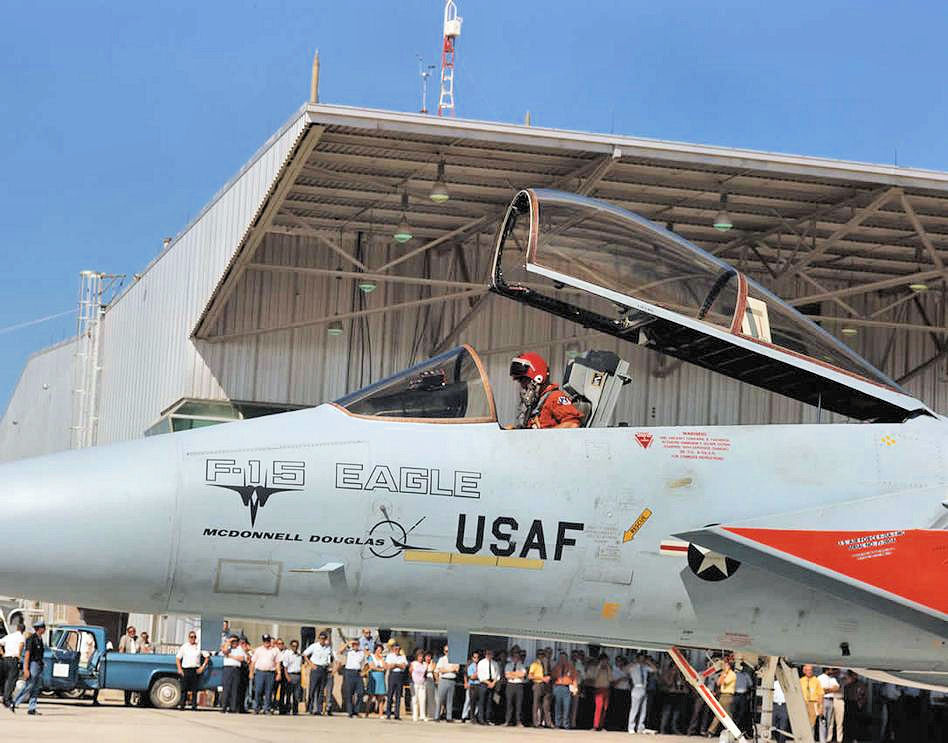 McDonnell Douglas F-15A-1-MC Eagle 71-0280 (also known as YF-15A; first F-15 manufactured). The F-15A makes its historic first flight on July 27, 1972 here at Edwards Air Force Base, Calif. The F-15 was first delivered to the U.S. Air Force in November 1974. Now at USAF History and Traditions Museum, Lackland AFB, TX. (Reported in 2005 to be at Lackland AFB, TX but painted as "85-0114".)